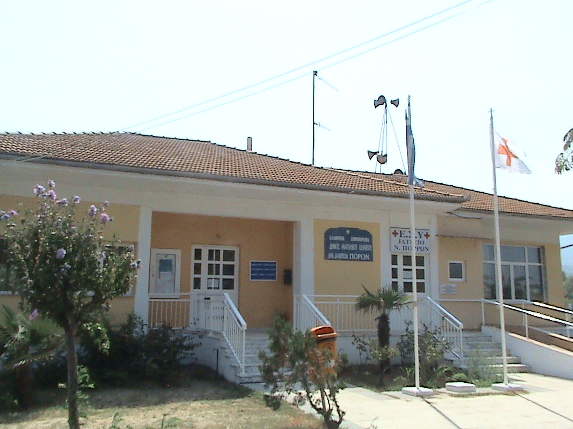 The Medical Centre of Poroi in Neoi Poroi.